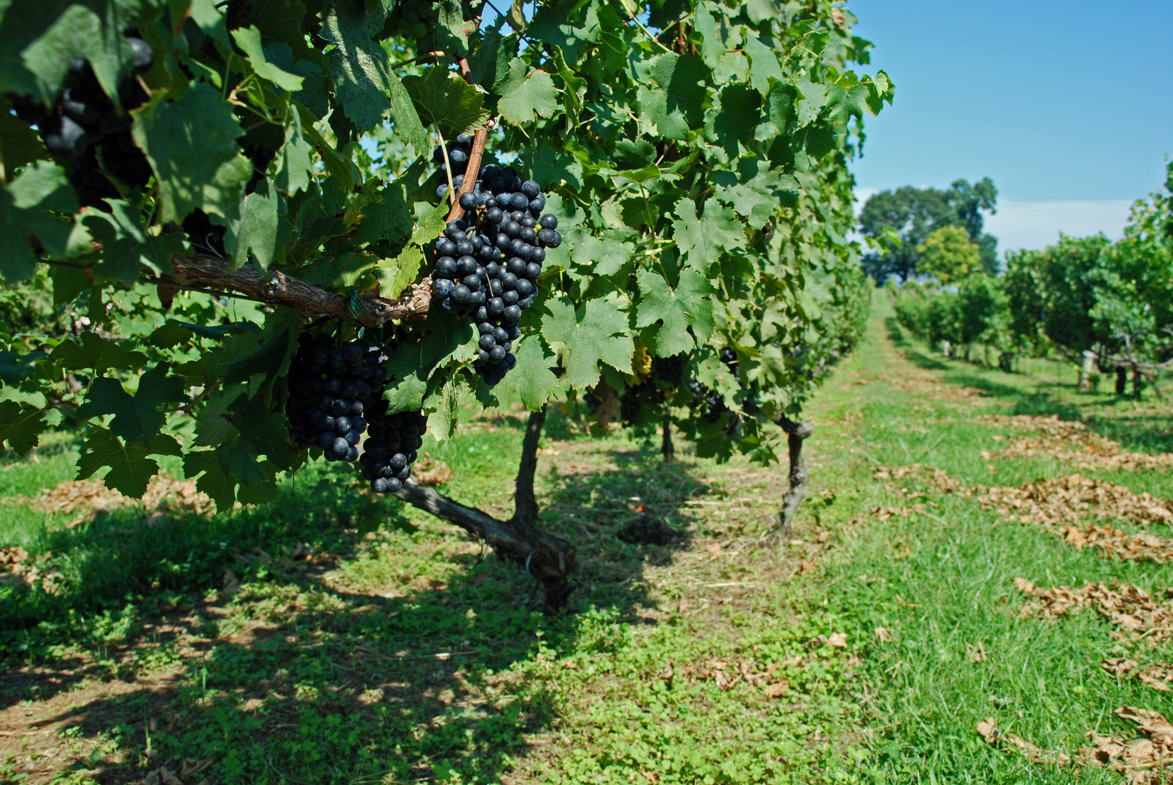 Virginia Wine Camp - Philip Carter Winery Cabernet Franc